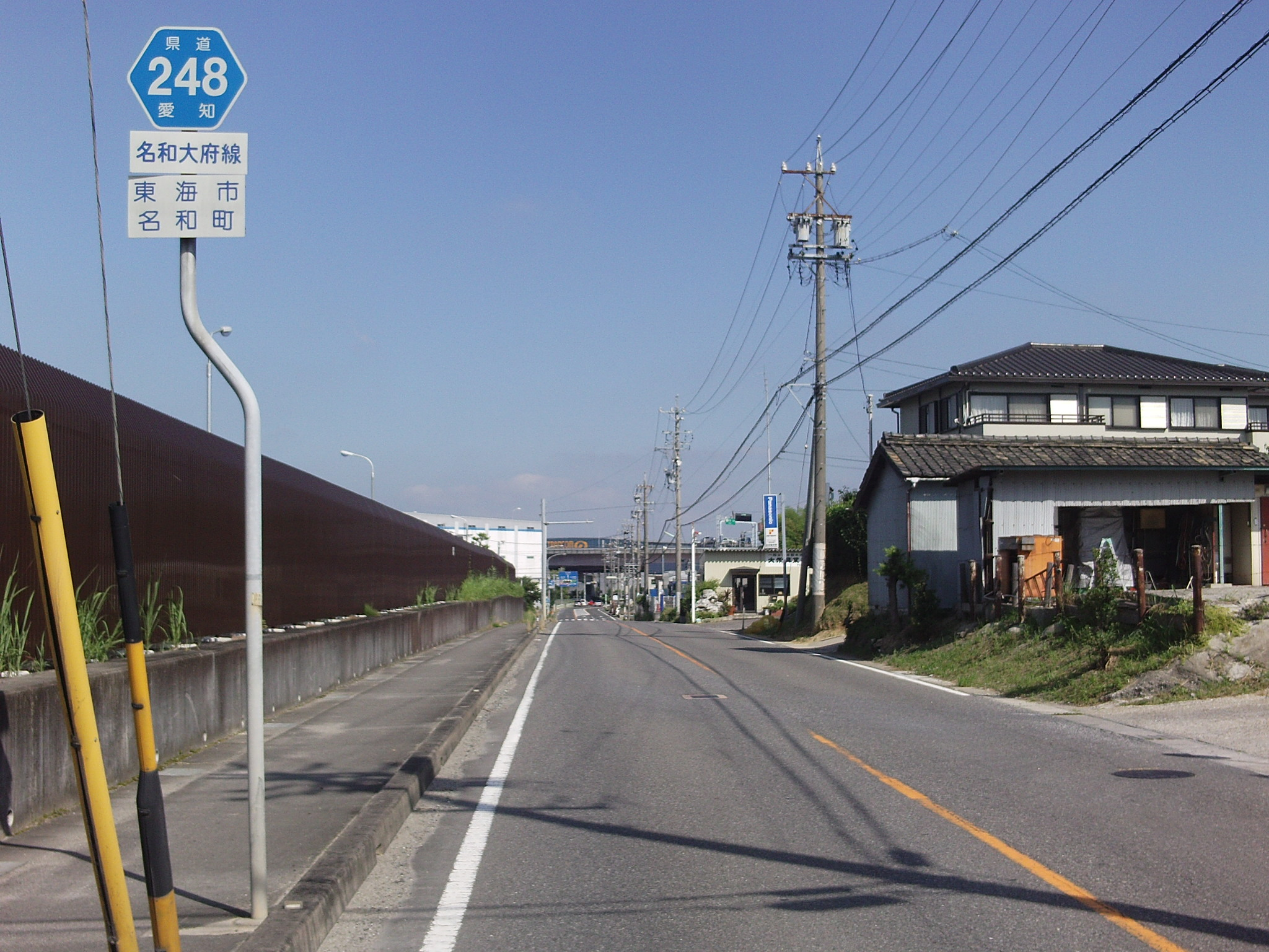 Aichi prefectural road No.248 in Nawacho, Tokai, Aichi.